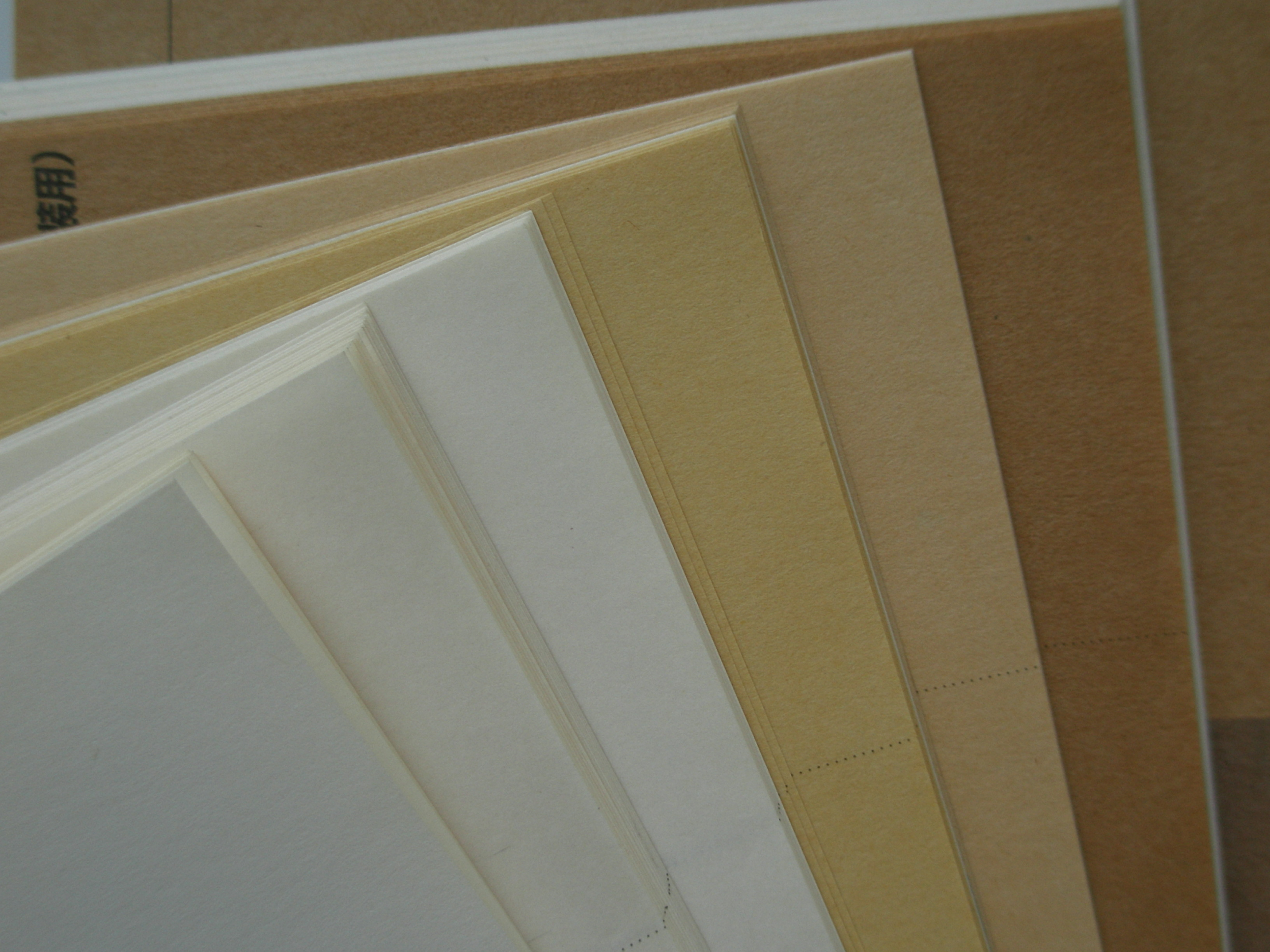 Packaging paper from the Packaging paper samples of Oji Paper Co., LTD. pole star 70g/m2 OK blizzard 50g/m2 Byakuya 45g/m2 OK gold 70/m2 Kinmon 100g/m2 OK Unbleached 50g/m2 RC Unbleached kraft 70g/m2